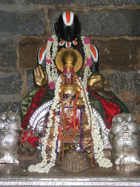 Swamy Vedanta Desikan